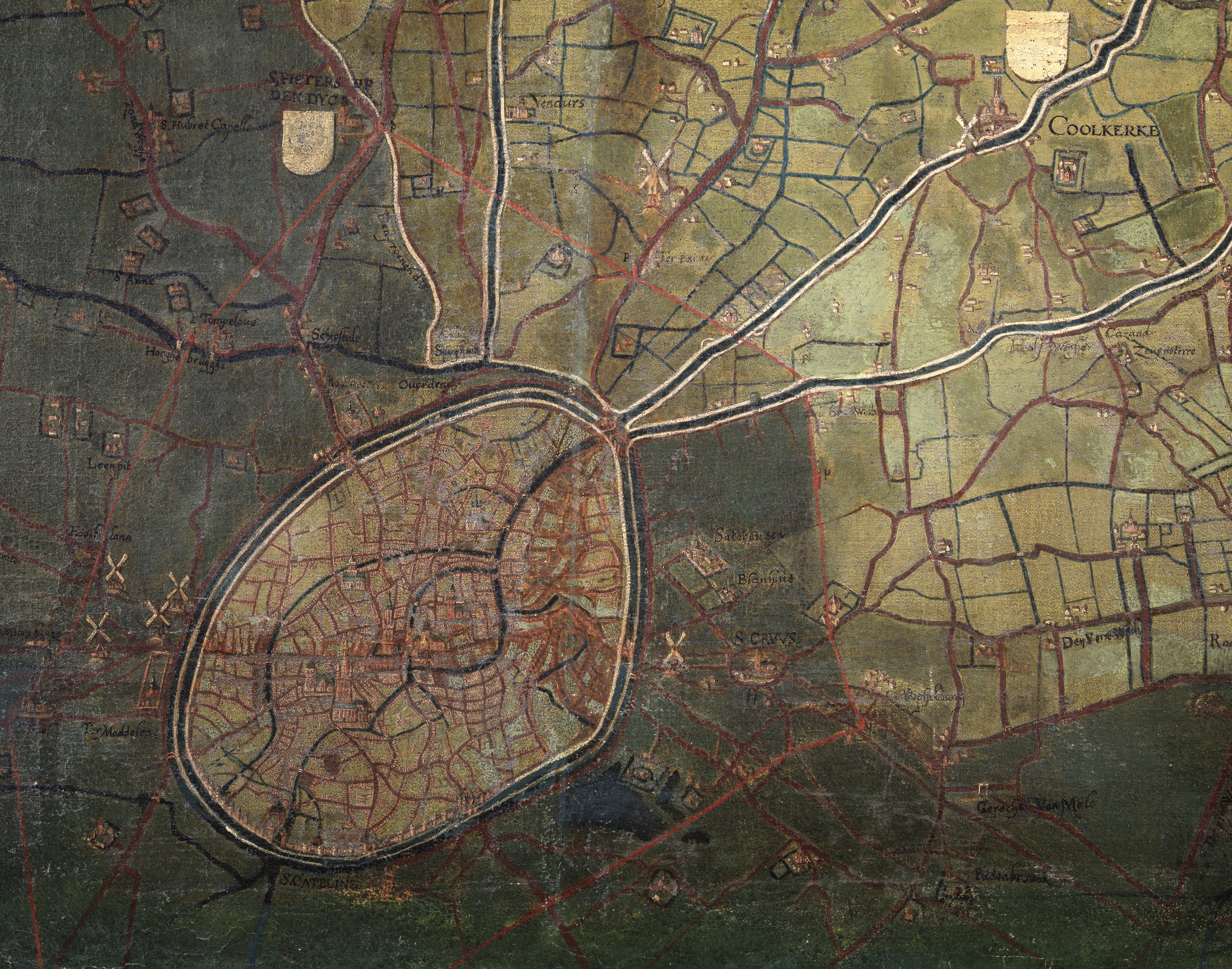 Kaart van Brugse Vrije, Pieter Porbus